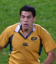 Team Australia